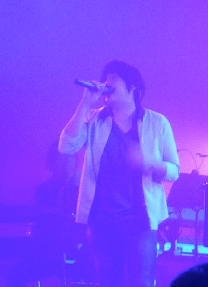 J-pop artist Takuya Ōhashi of "Sukima Switch" (at "Countdown Japan" music festival.)